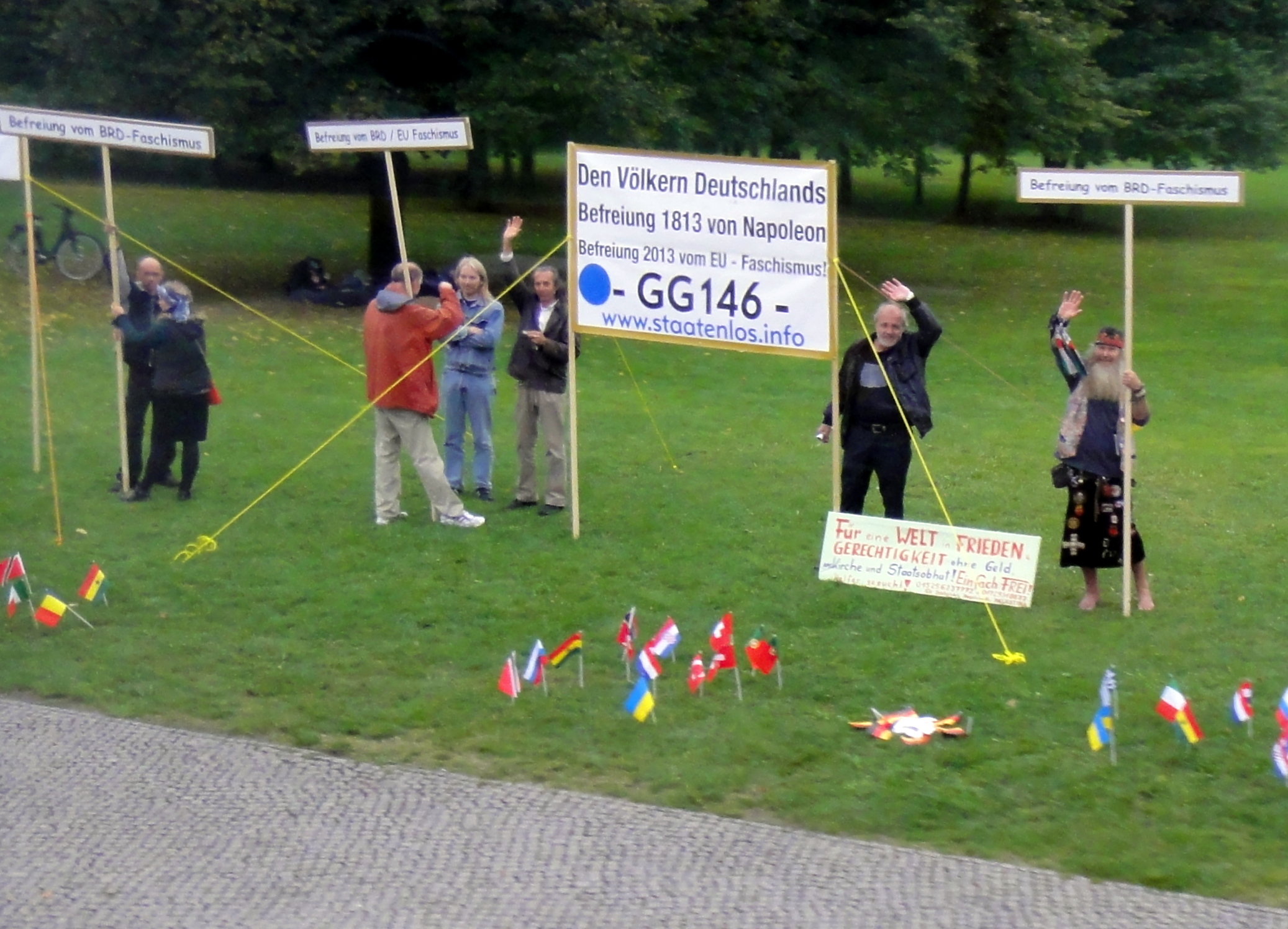 Berlin, germany: Protesters who belong to groups that claim that the Federal Republic of Germany never existed as a state in the sense of the international law, and that the Deutsches Reich (as it existed from 1918 on) persisted after 1945 and still persists. People who claim or believe that are referred (or refer themselves) to the so-called Reichsbürgerbewegung.